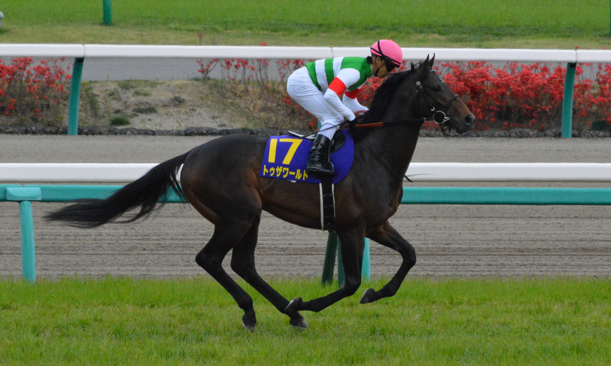 Japanese race horse To The World at Nakayama racecourse. Nakayama (JPN) 20 Apr 2014 Satsuki Sho (Japanese 2000 Guineas) (Grade 1) (3yo Colts & Fillies) (Turf) 1m2f Firm RankHorse NameOddsAgeWgtTrainerJockey1stIsla Bonita (JPN)41/10C39-0Hironori KuritaMasayoshi Ebina2ndTo The World (JPN)5/2FC39-0Yasutoshi IkeeYuga Kawada3rdWin Full Bloom (JPN)239/10C39-0Hiroshi MiyamotoDaichi Shibata4th-18th/omission